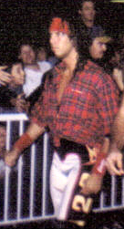 Sean Waltman, as the 1-2-3 Kid, at a WWF event in 1995